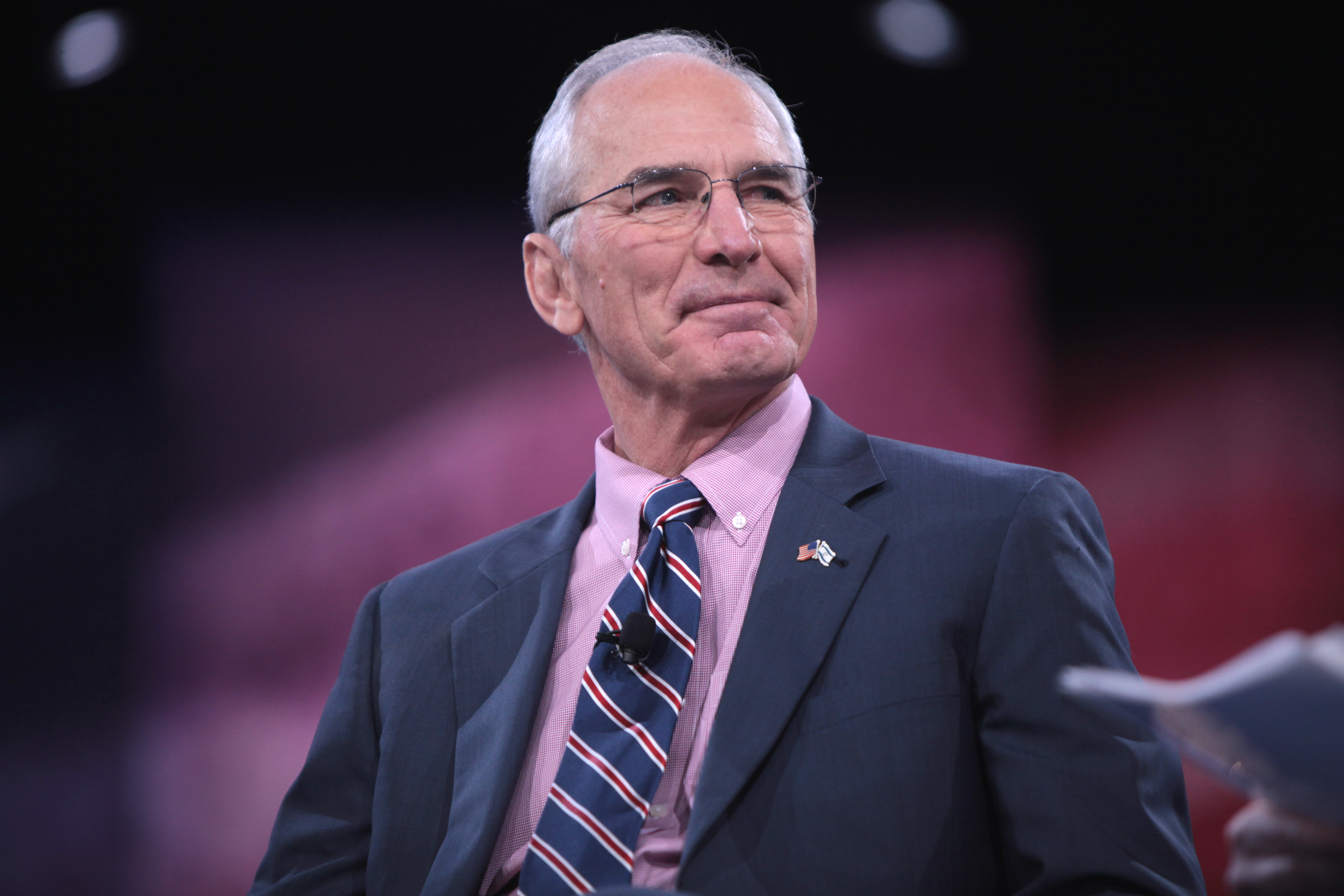 Bob Beauprez speaking at an event in Washington, D.C.